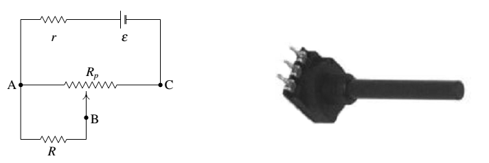 circuito dc